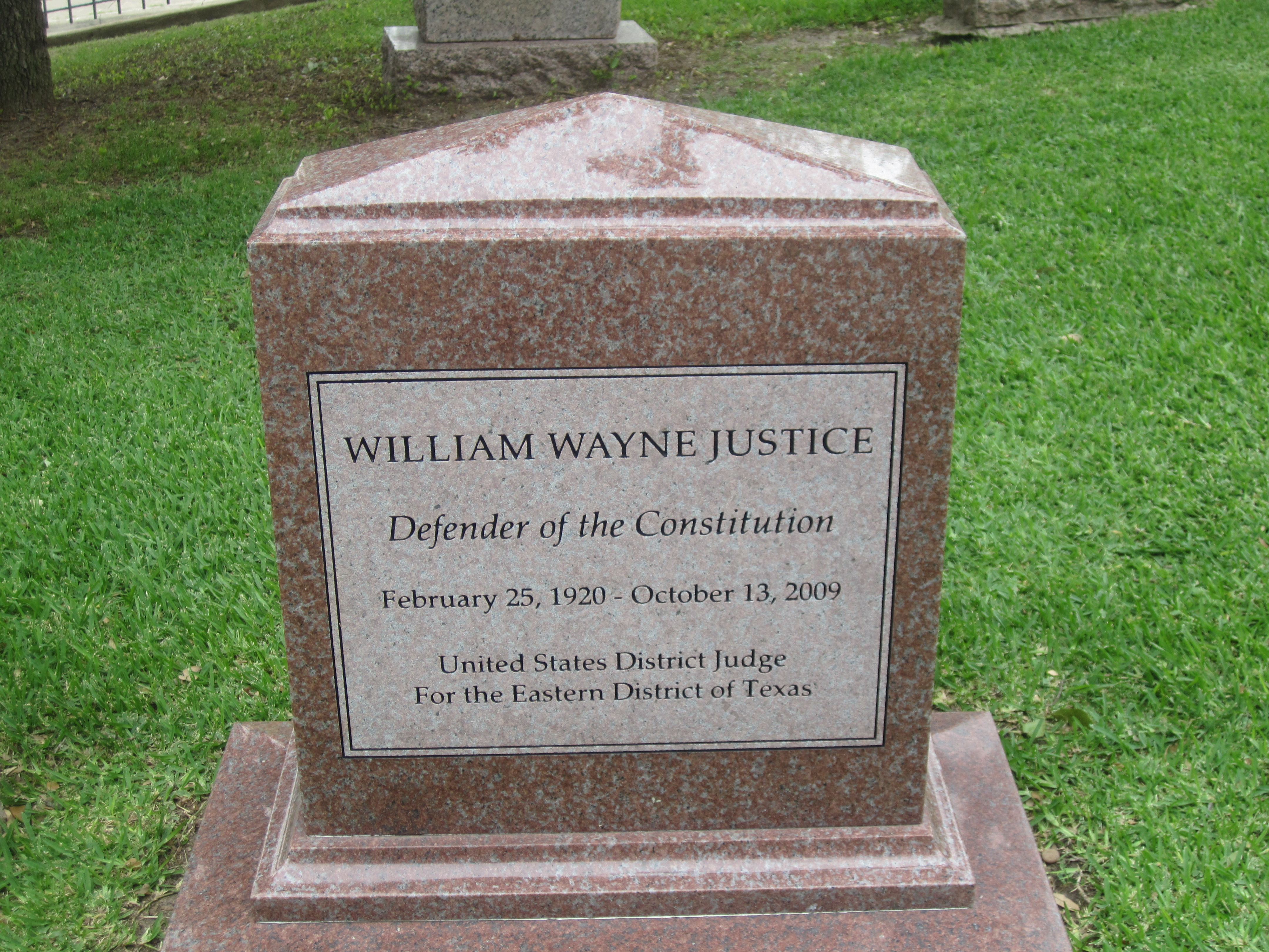 I took photo at Texas State Cemetery in Austin of tomb of Justice William Wayne Justice.